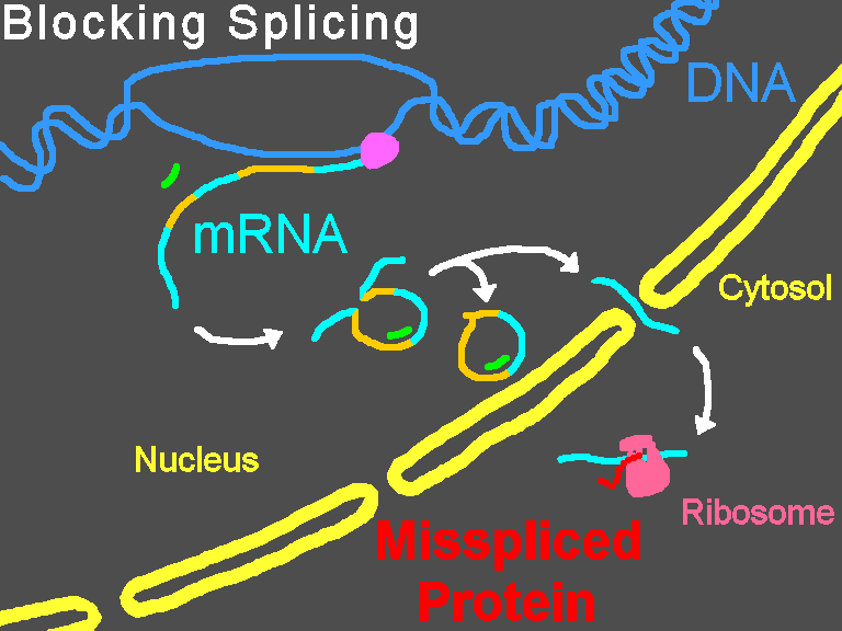 This image was created by Jon D. Moulton of Gene Tools, LLC and is made available under the GNU Free Documentation License .